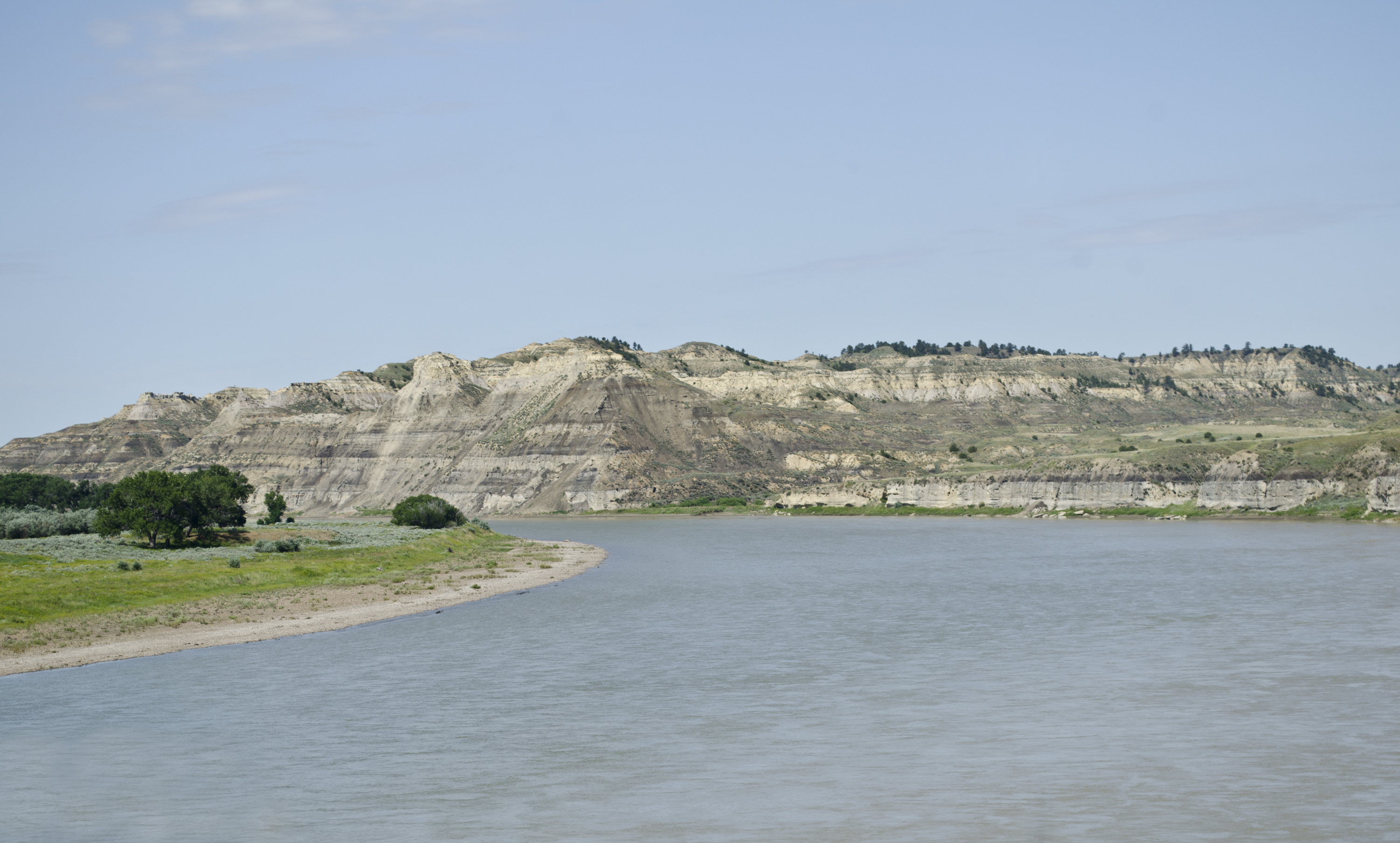 The Yellowstone River near Sidney, Montana, as seen from Interstate 90.